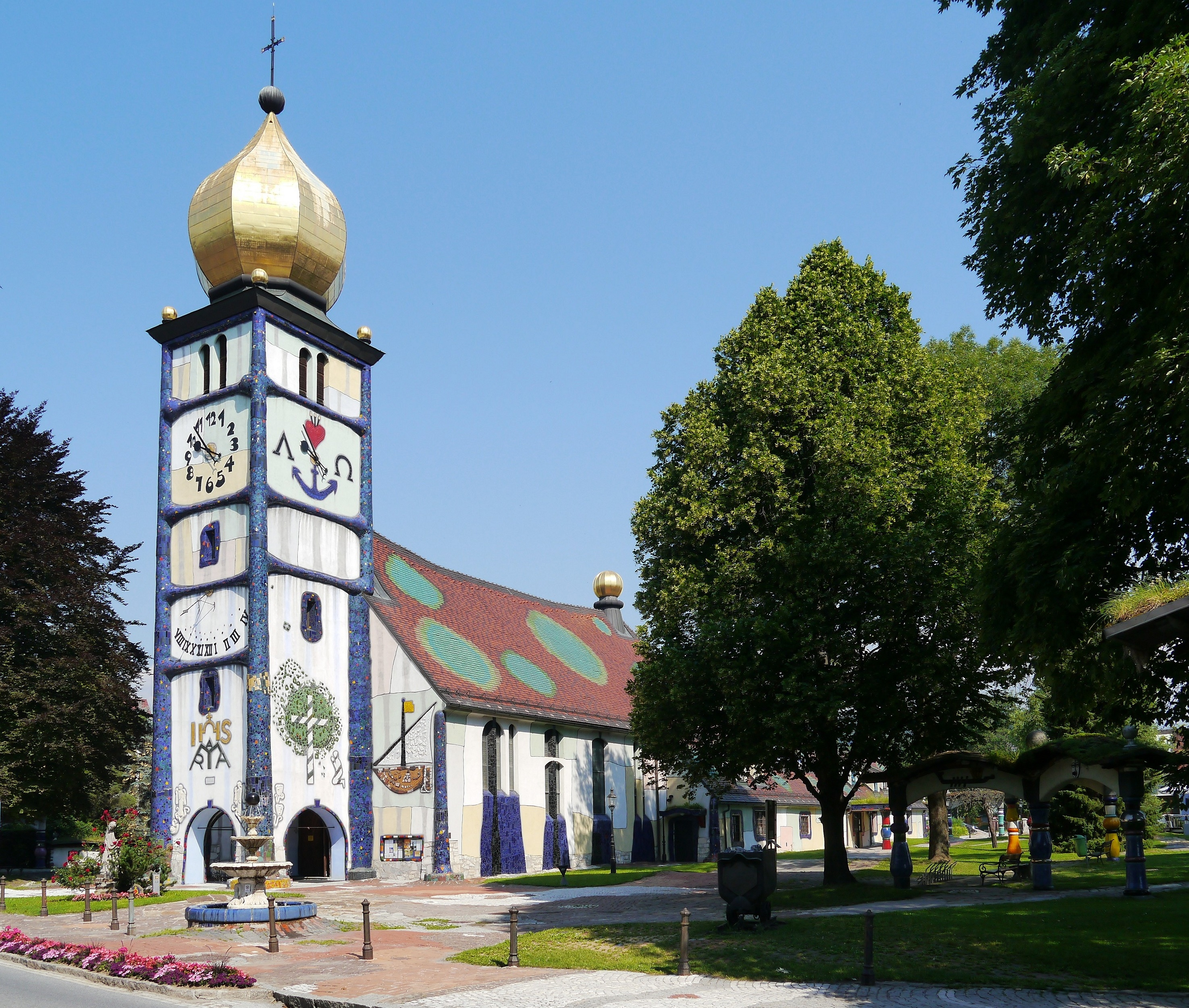 Hundertwasser Church St. Barbara, Bärnbach, Styria